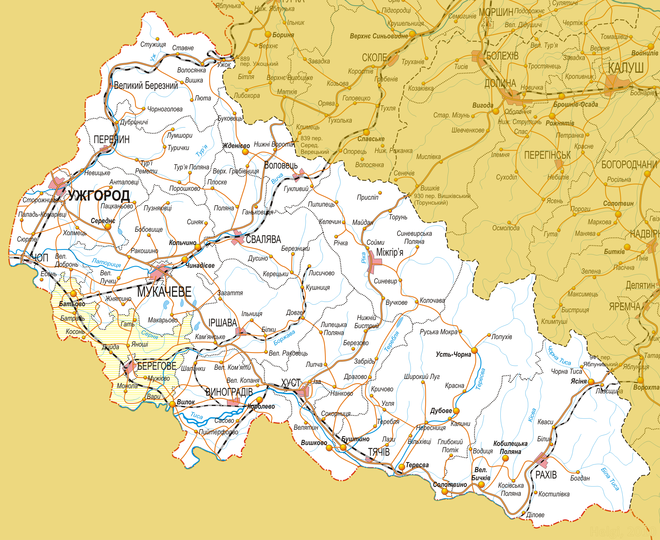 Blank map of Zakarpattia region Berehivski raion